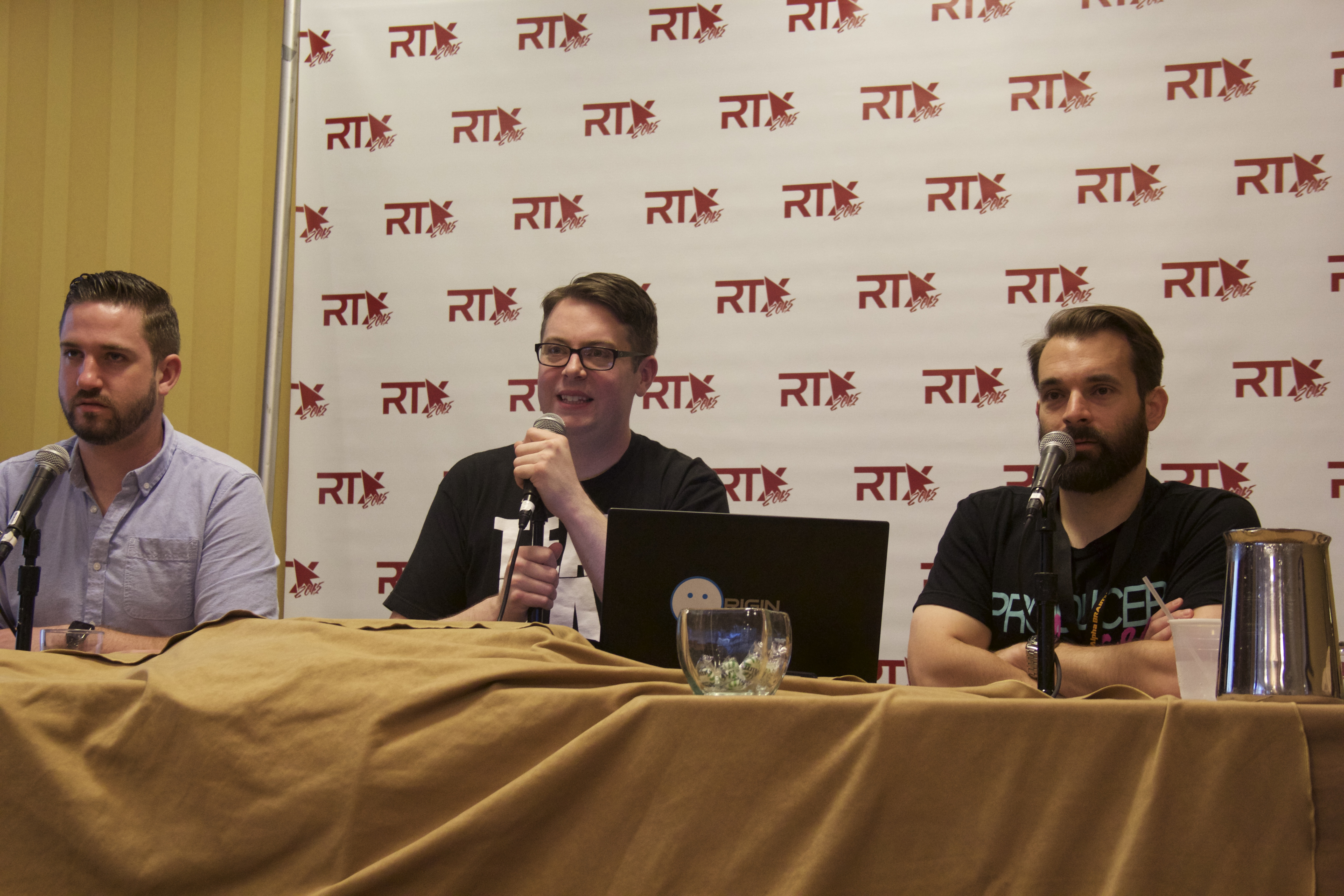 The Kinda Funny panel at RTX 2015. Pictured from left to right is Tim Gettys, Greg Miller, and Nick Scarpino.